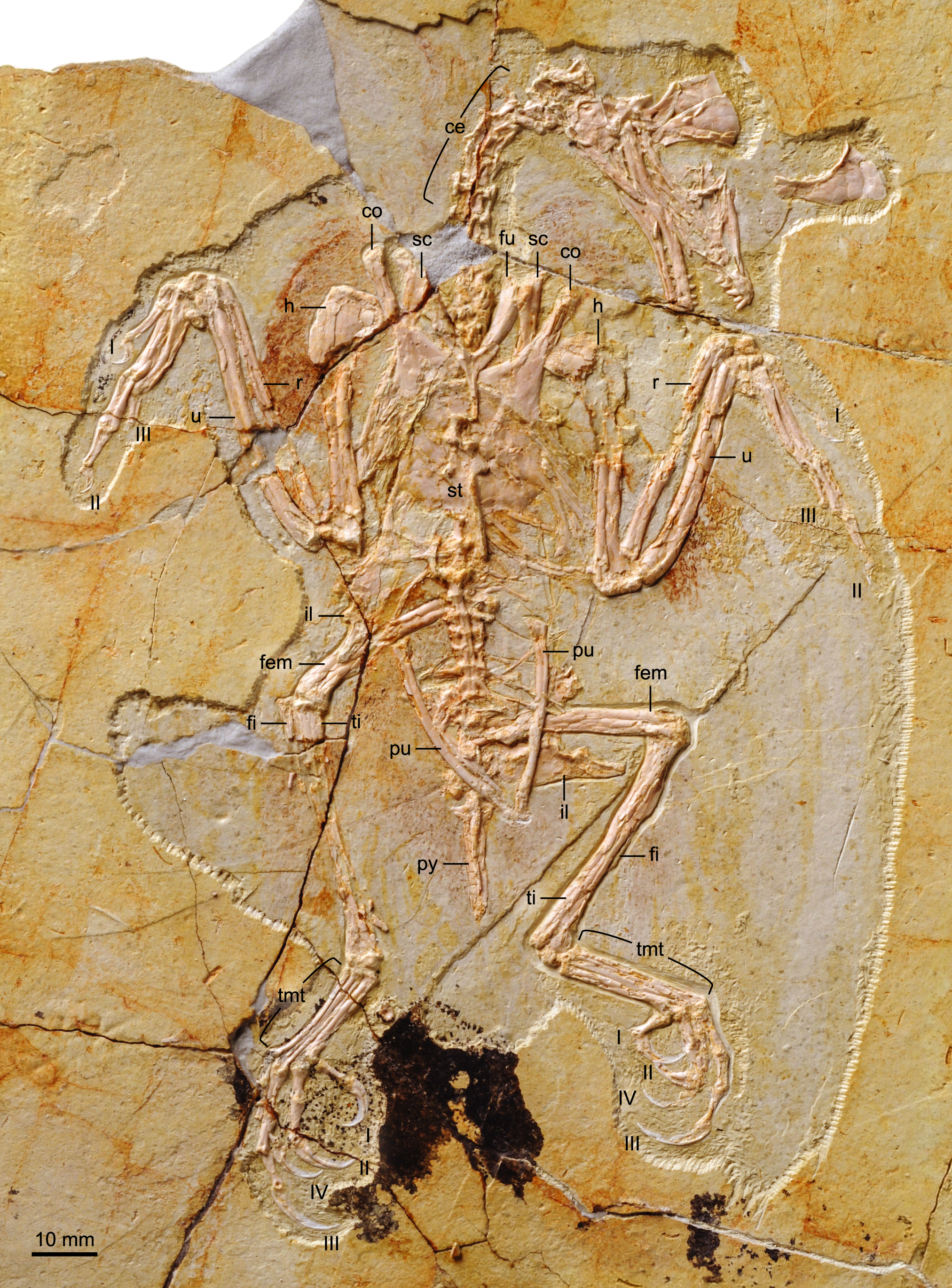 Photograph of Zhouornis hani specimen BMNHC Ph 756. Abbreviations: ce, cervical vertebrae; co, coracoid; fem, femur; fi, fibula; fu, furcula; h, humerus; il, ilium; pu, pubis; py, pygostyle; r, radius; sc, scapula; st, sternum; ti, tibiotarsus; tmt, tarsometatarsus; u, ulna; I–IV, digits I–IV.